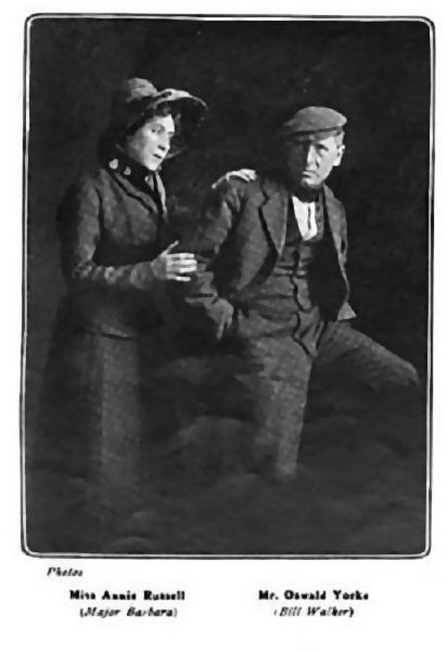 Oswald Yorke with Annie Russell